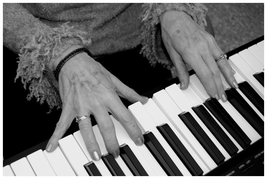 A woman plays an electronic keyboard. San Antonio, Texas (2006). Photo by Peter Rimar.